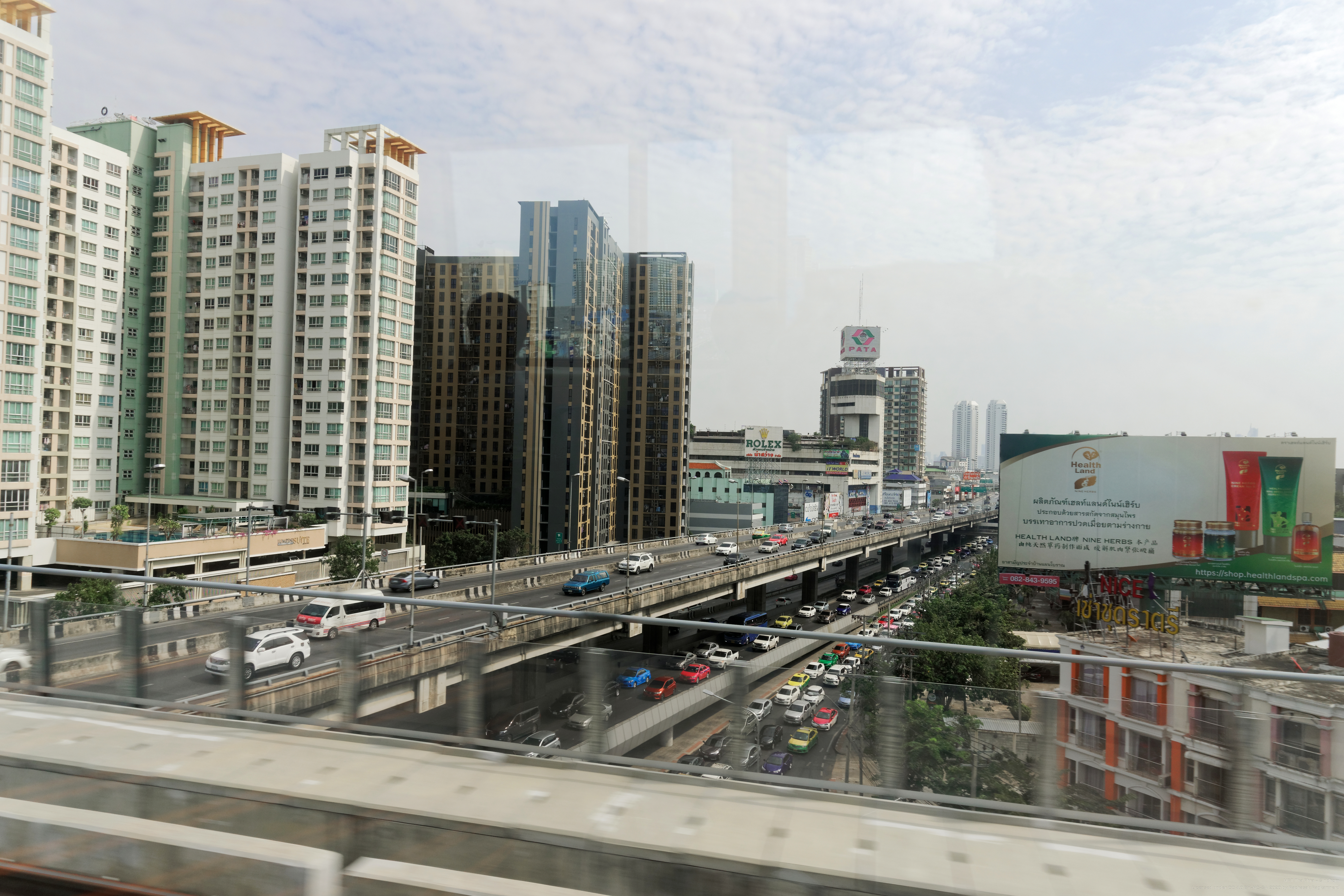 MRT Bang Khun Non – Baromnatchachonnanee intersection